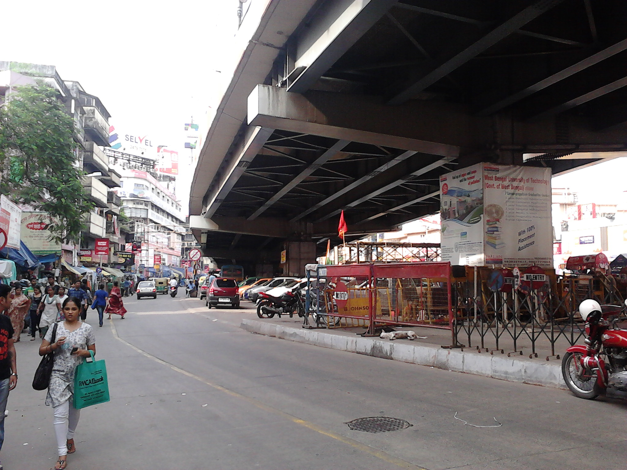 Kolkata. This media file is uploaded with India loves Wikipedia event.